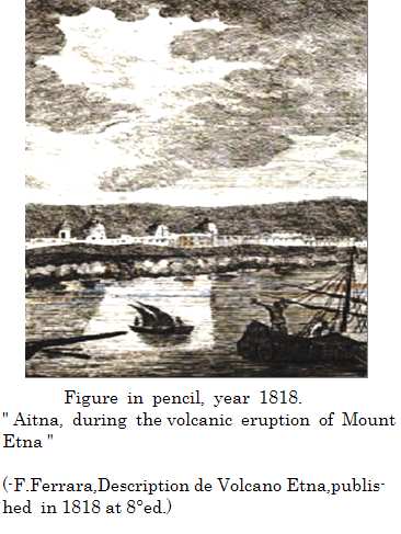 a historial picture in pencil in 1800/1818, of Aitna during the volcanic eruption of Mount Etna. this picture was printed by F.Ferrara, in Sicily, in 1818